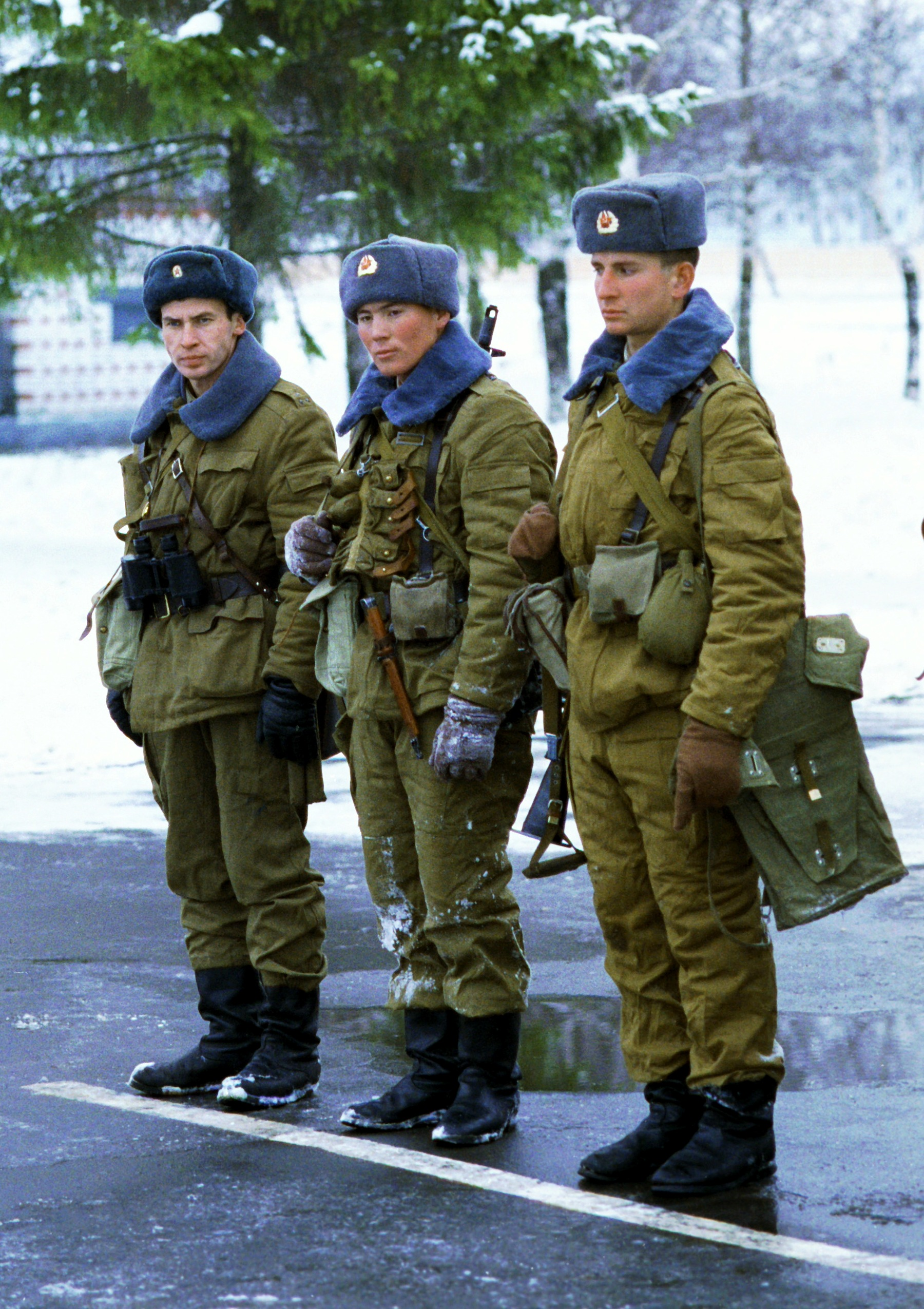 Three soldiers from the Soviet army's Tamanskaya Division, an Azerbaijani, a Mongolian and a Russian, stand beside one another to show the ethnic diversity of their army.